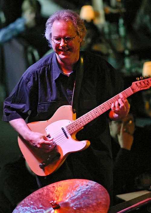 Bill Frisell - live at Jazz Alley, Seattle - 25 April 2004: The B3 Trio